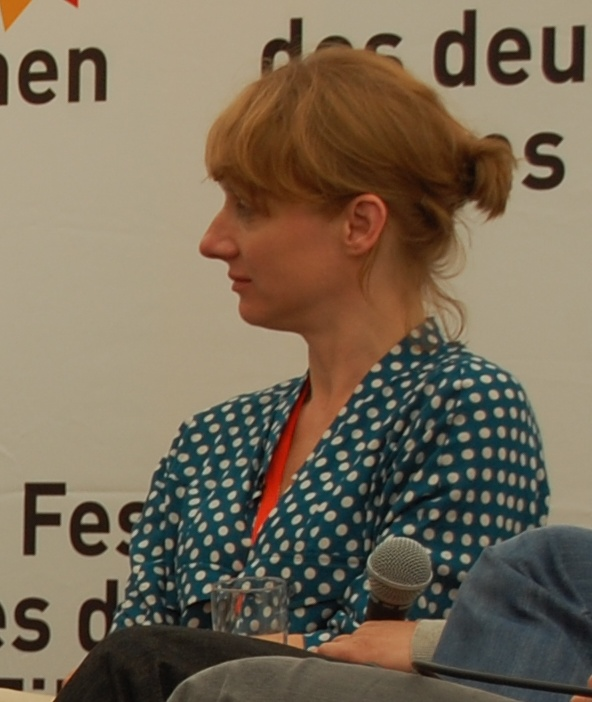 German movie actress Christina Große presenting the Movie "Für Elise" at the Festival des Deutschen Films (Festival of the German Movie) 2012 in Ludwigshafen.